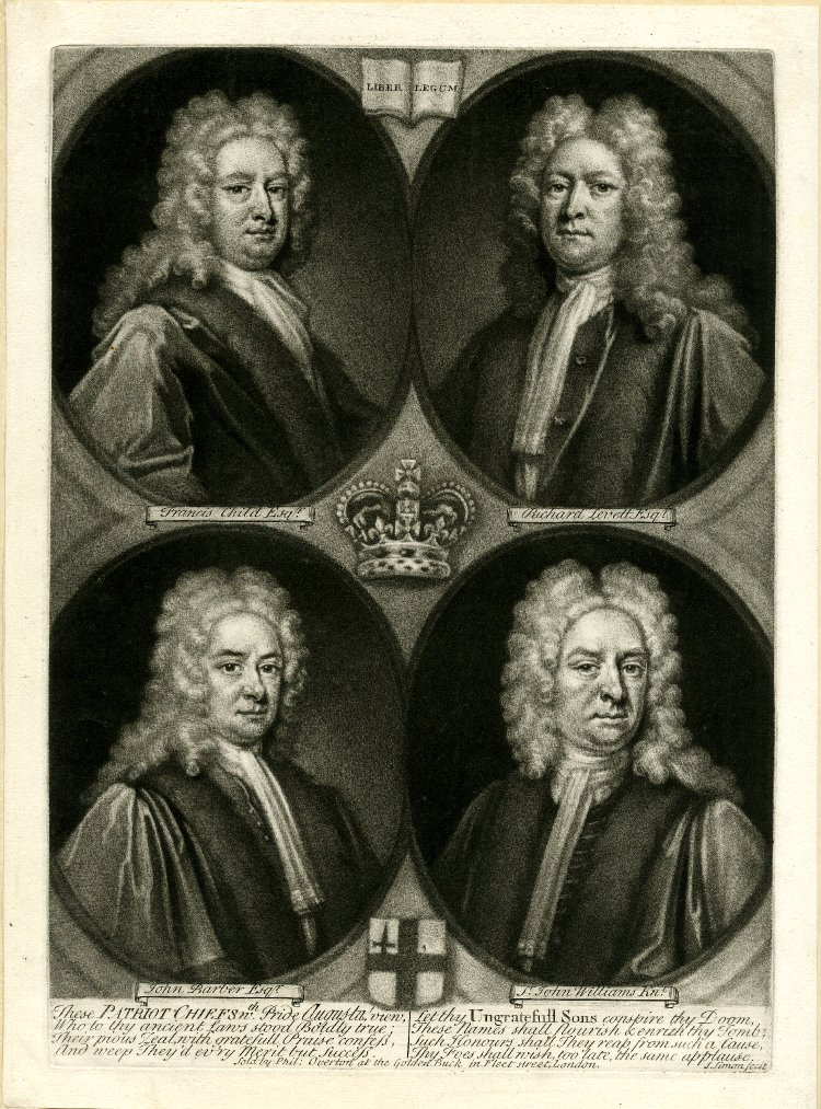 "These Patriot Chiefs with Pride Augusta!," mezzotint, showing four Aldermen of the City of London in their robes: Francis Child, Richard Levett, John Barber and John Williams. Print by John Simon, published by Philip Overton at London. 390 mm x 286 mm. Courtesy of the British Museum, London.